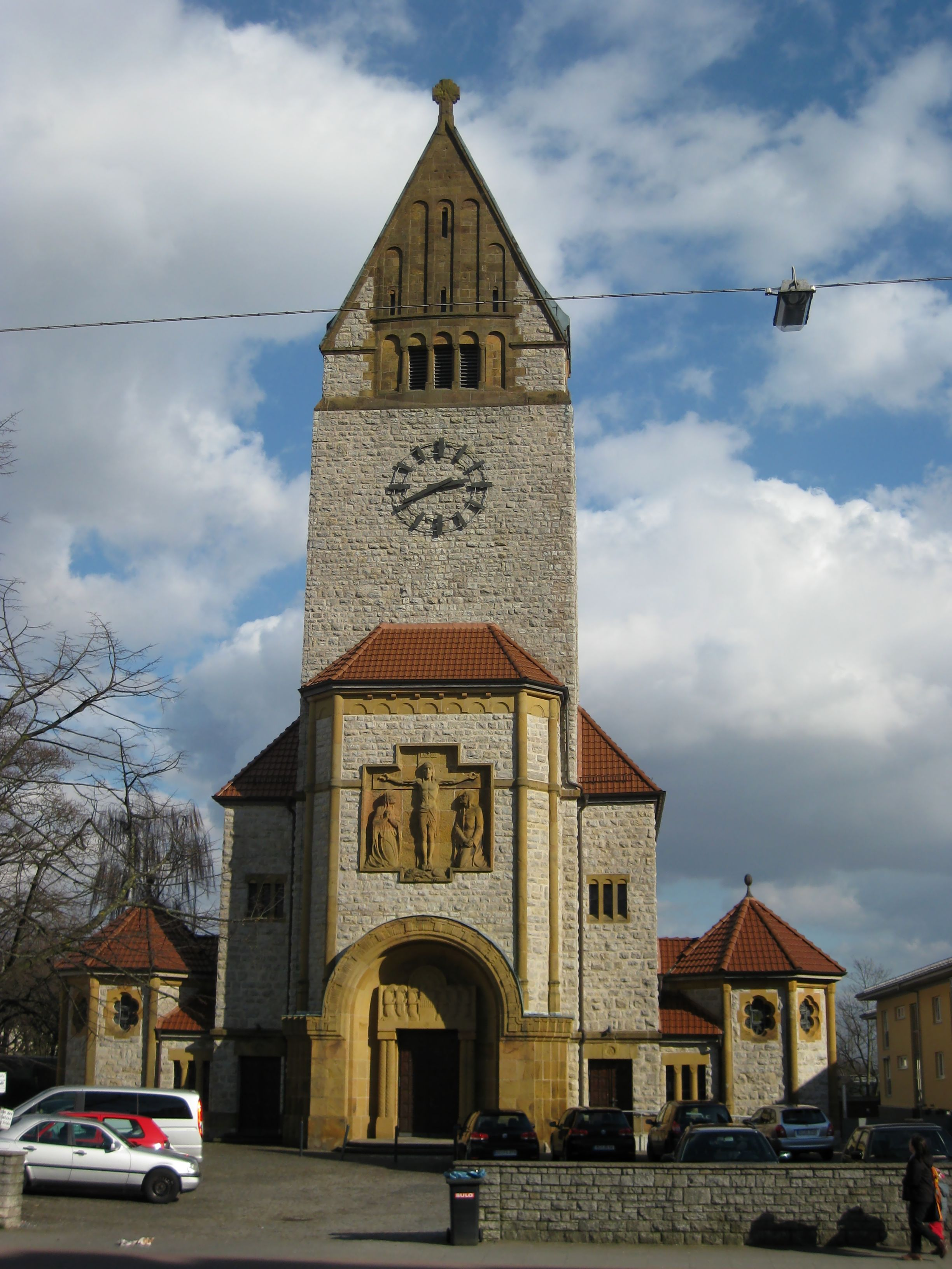 catholic parish church St. Josef in Bielefeld-Mitte